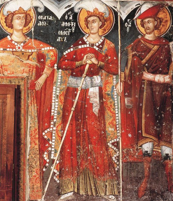 Megala Meteora